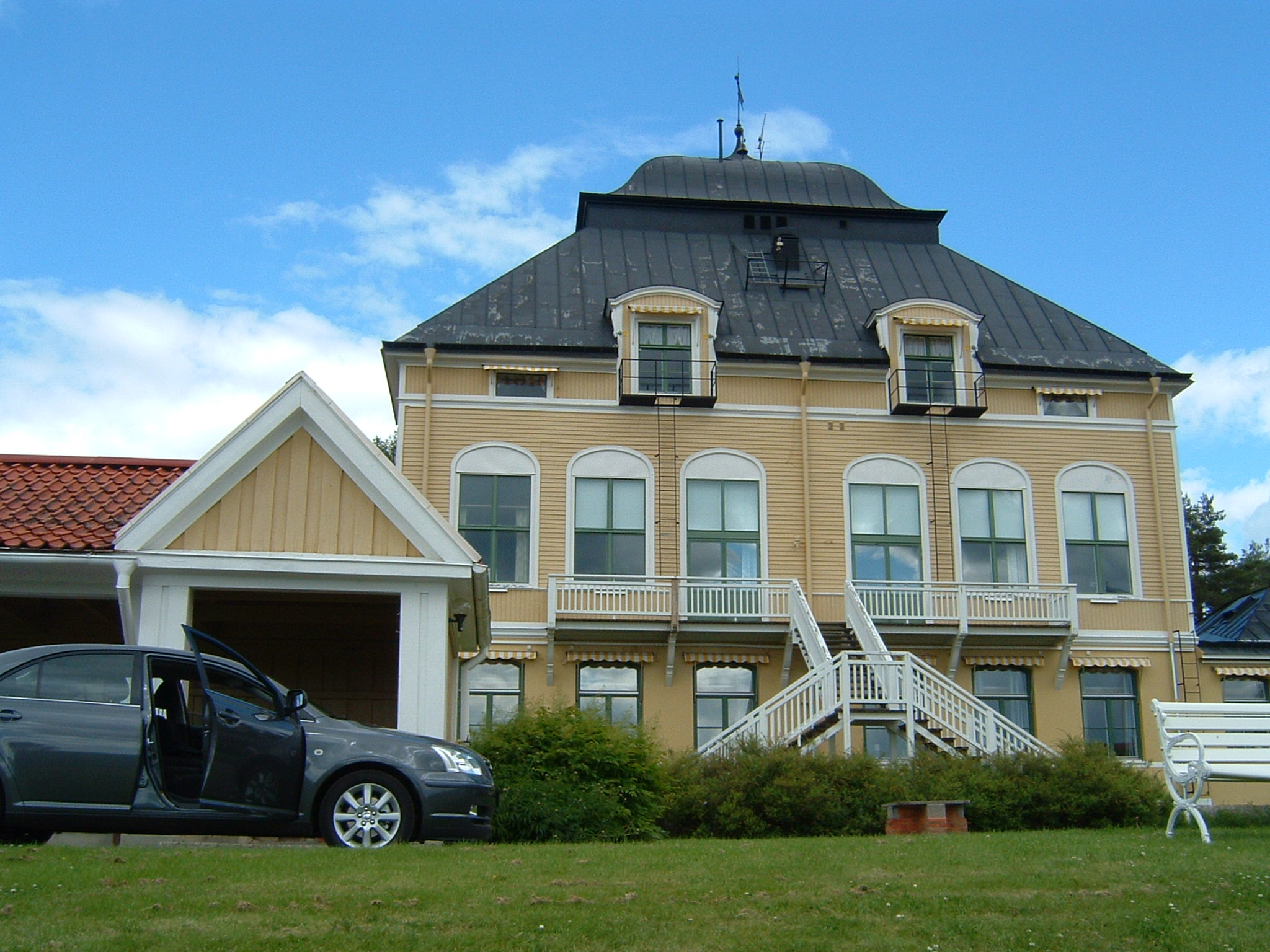 Main building of "Österåsens hälsohem" in Sollefteå municipality, viewed from south